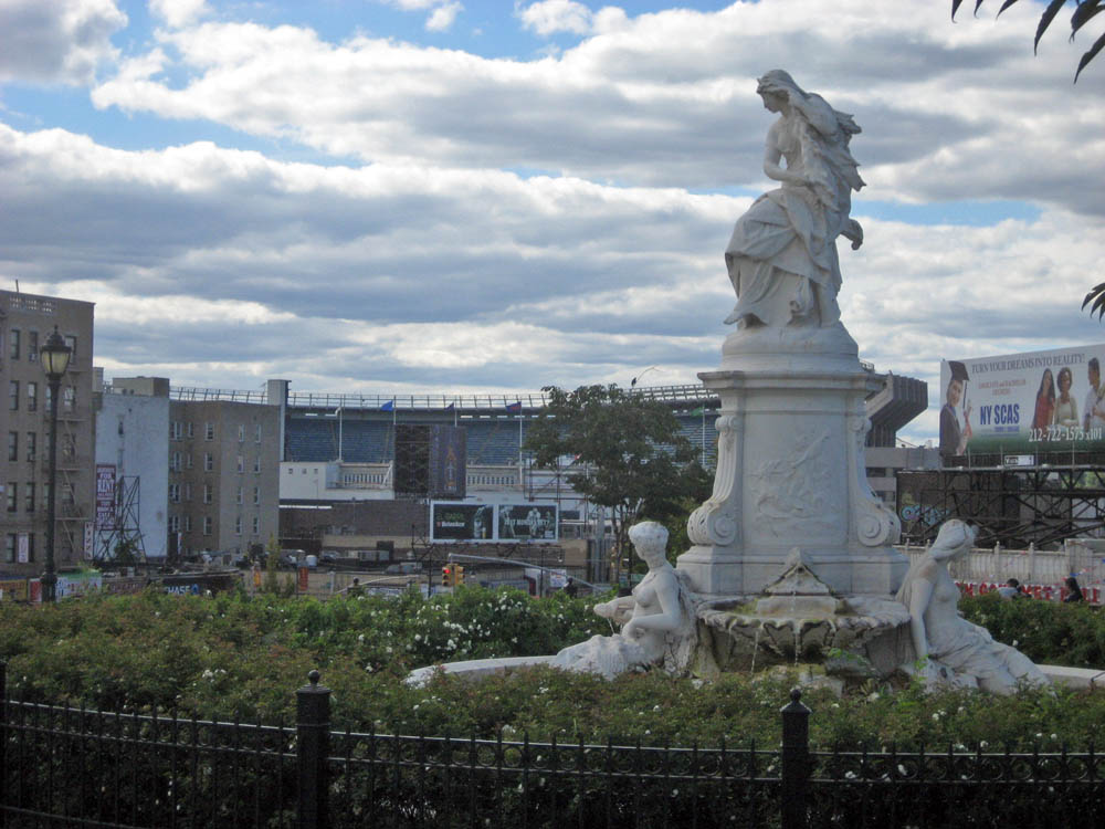 Ernst Herter's Lorelei Fountain in Joyce Kilmer Park overlooking Yankee Stadium. I took this photo myself.